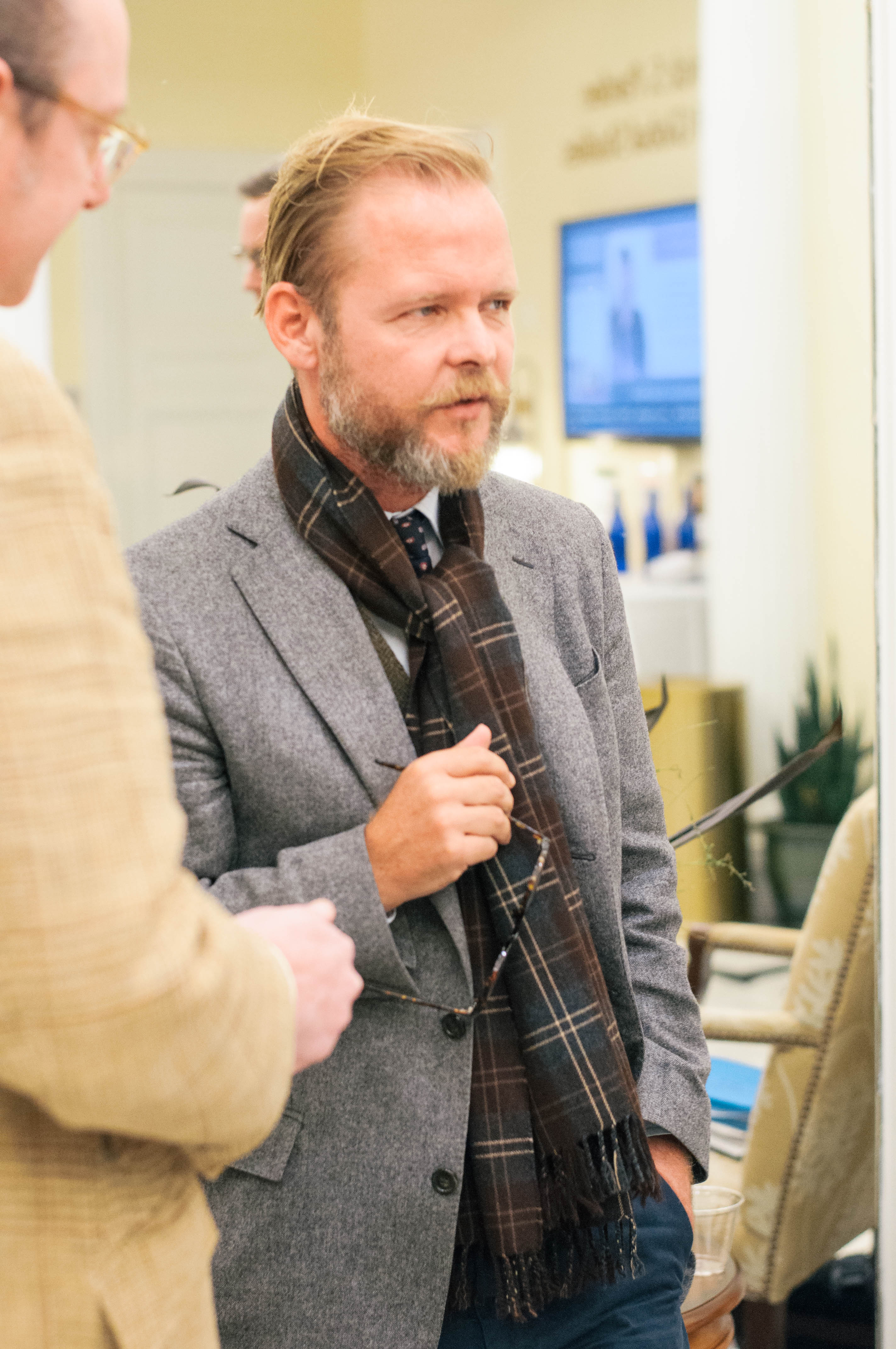 European Voices: A Reading & Conversation with Swiss Author Christian Kracht. At the Pardee School of Global Studies. Monday, September 21, 2015.